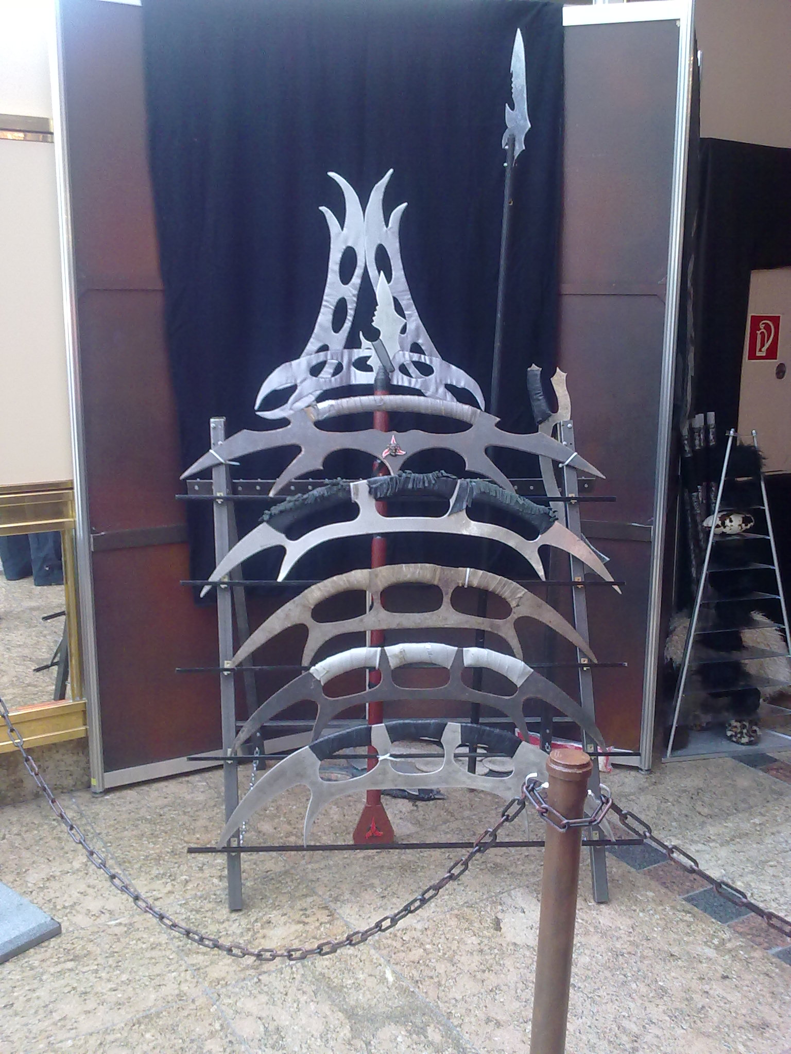 Klingon weapons (especially bat'leths)